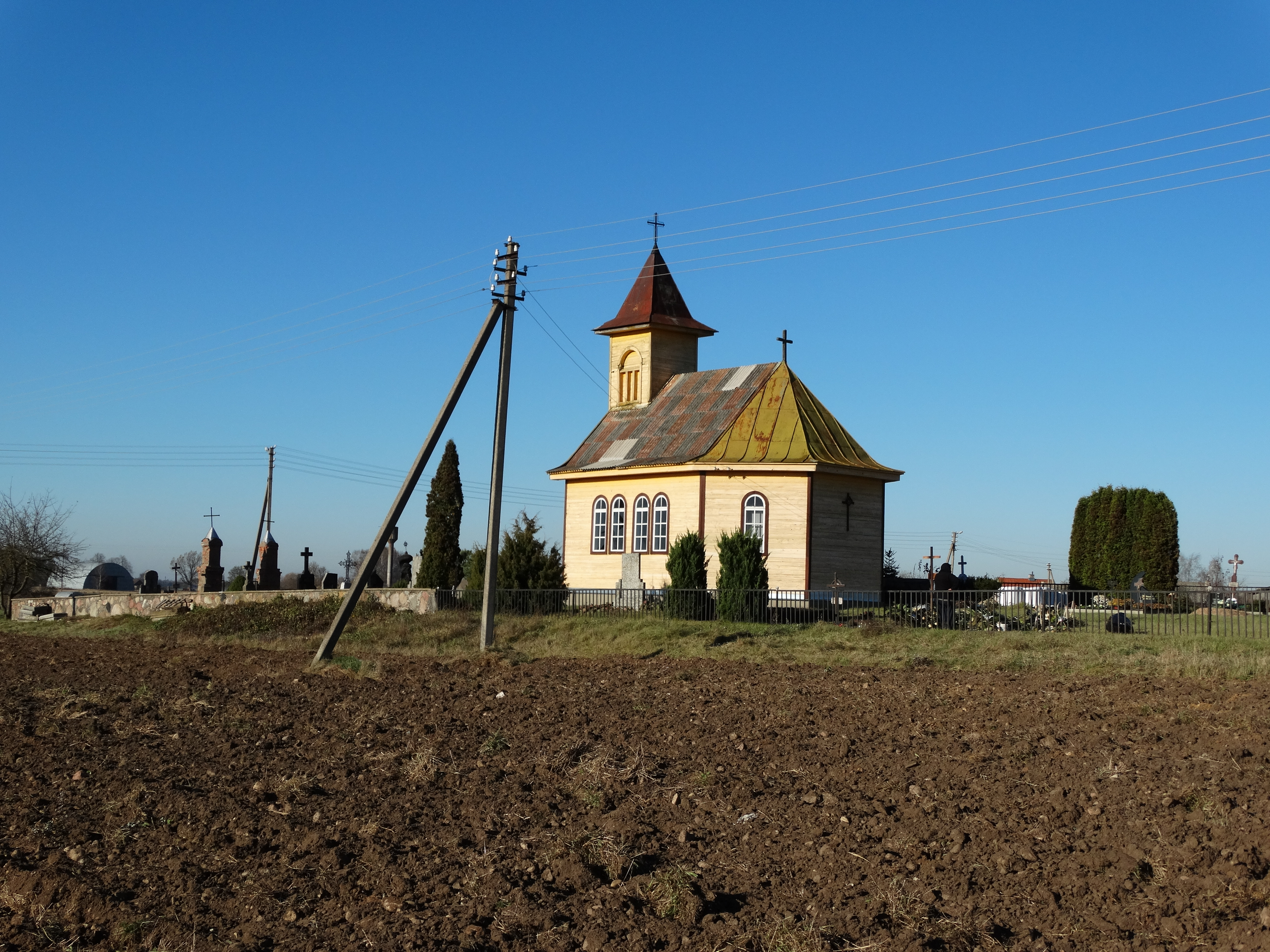 Chapel in Lukonys, Kupiškis district, Lithuania